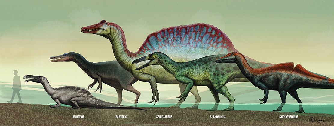 Spinosauridae family genus live restoration